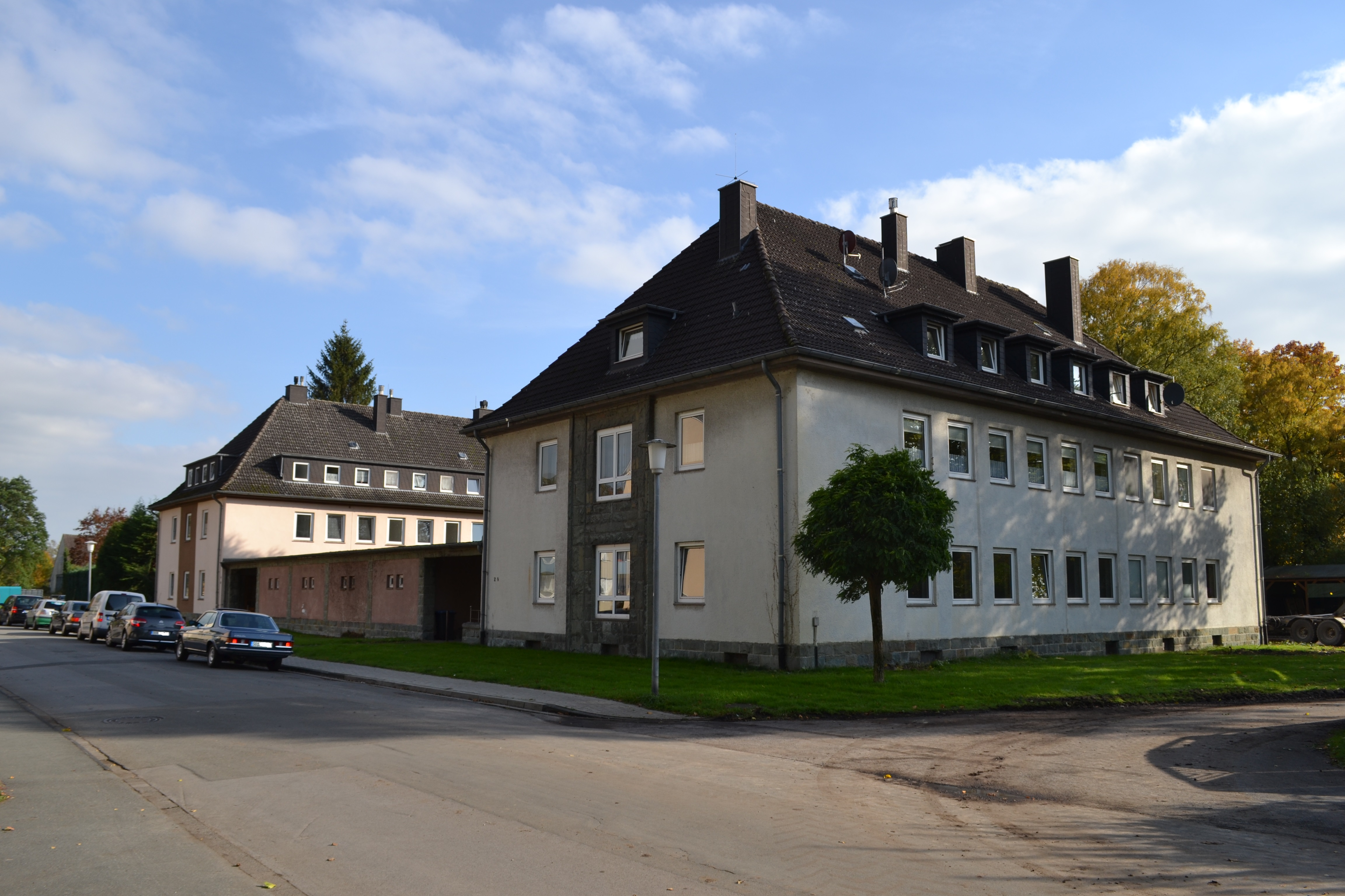 Buildings of former "Luftwaffenkaserne" Lippstadt-Lipperbruch